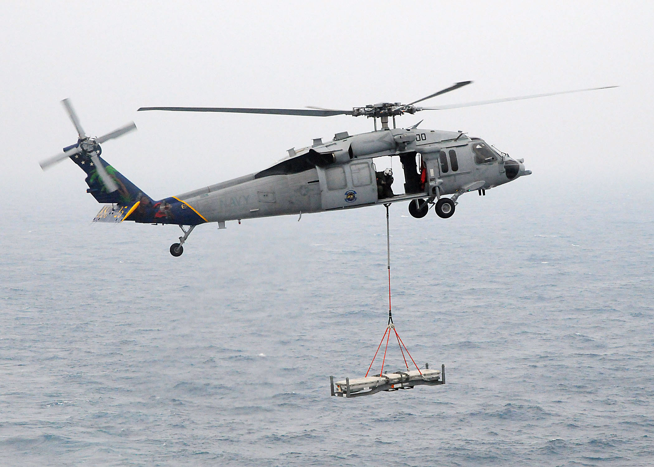 PACIFIC OCEAN (May 11, 2009) An MH-60S Sea Hawk helicopter assigned to the Island Knights of Helicopter Sea Combat Squadron (HSC) 25 lifts off from the Military Sealift Command dry cargo/ammunition ship USNS Alan Shepard (T-AKE 3) to the aircraft carrier USS George Washington (CVN 73) during a munitions transfer. George Washington is conducting flight deck certification and carrier qualifications in the western Pacific Ocean after its first Selective Restricted Availability. (U.S. Navy photo by Mass Communication Specialist 1st Class John M. Hageman/Released)